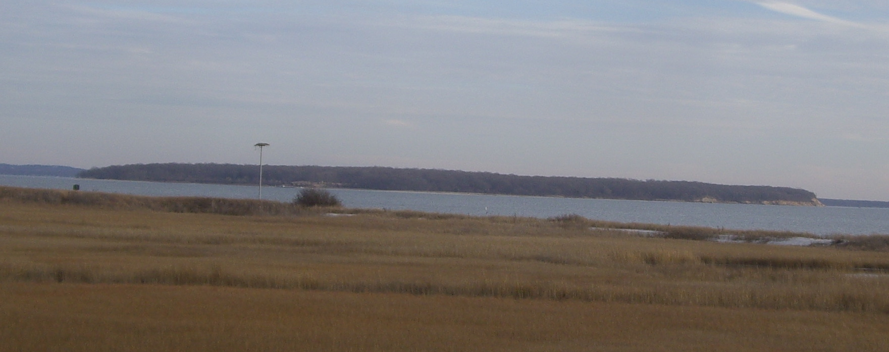 Robins Island, Cutchogue, NY